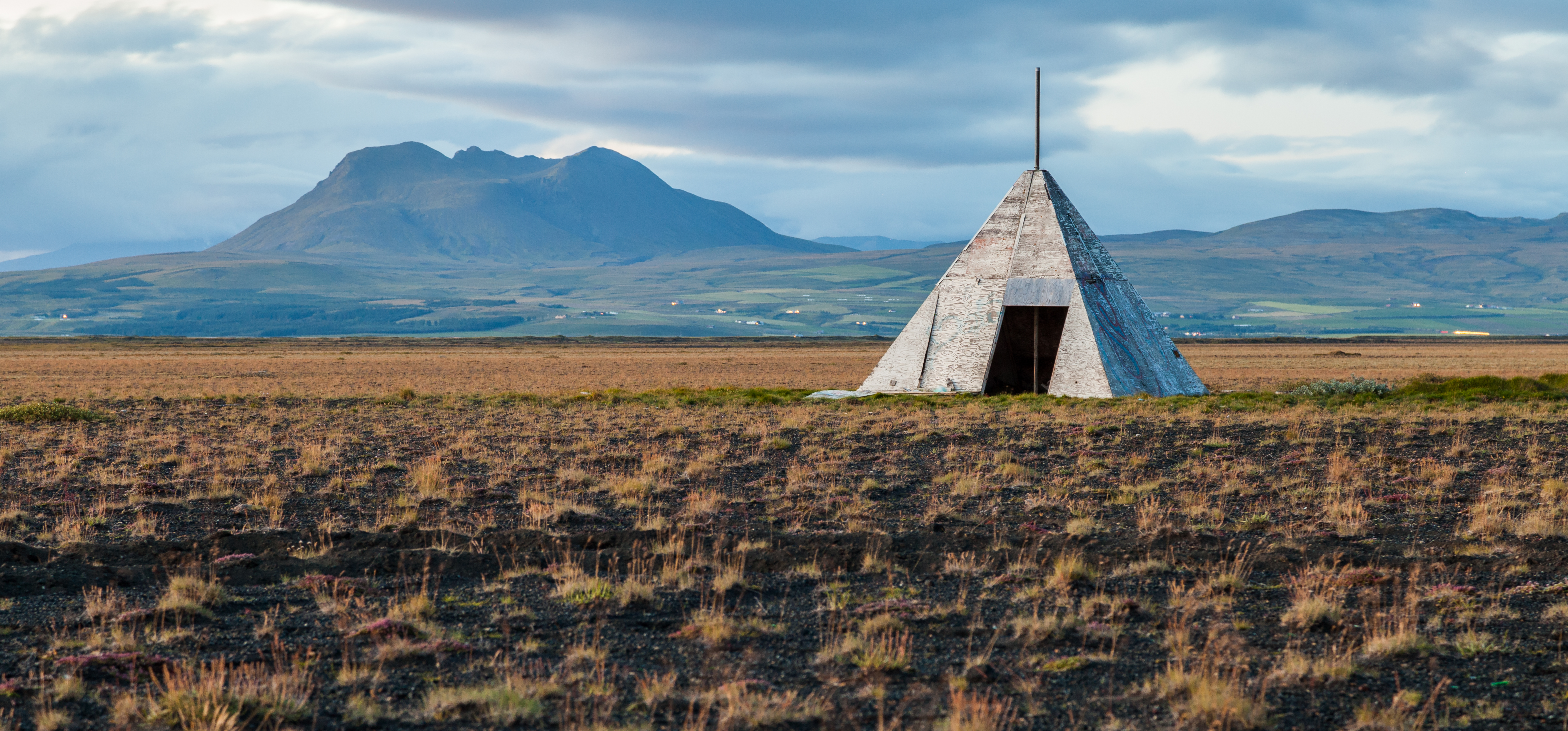 Farm building after sunset near Hvolsvöllur, Suðurland, Iceland.